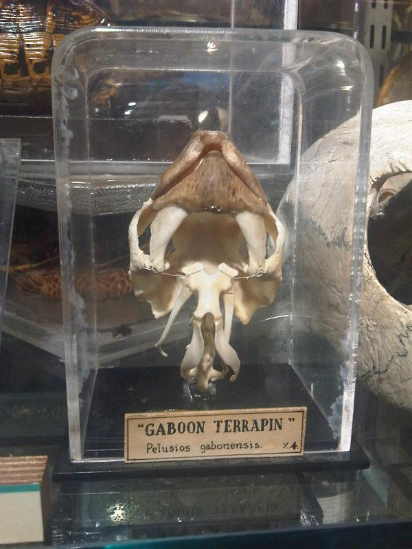 A Pelusios gabonensis skull seen from below, in Grant Museum of Zoology, London, England.